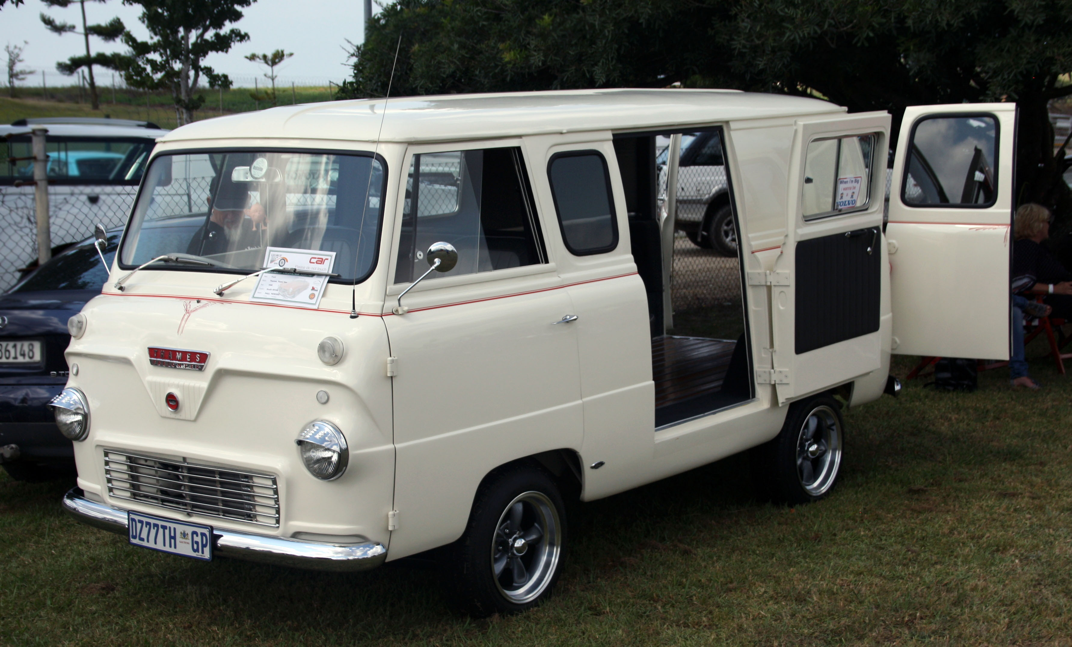 1958 Ford Thames